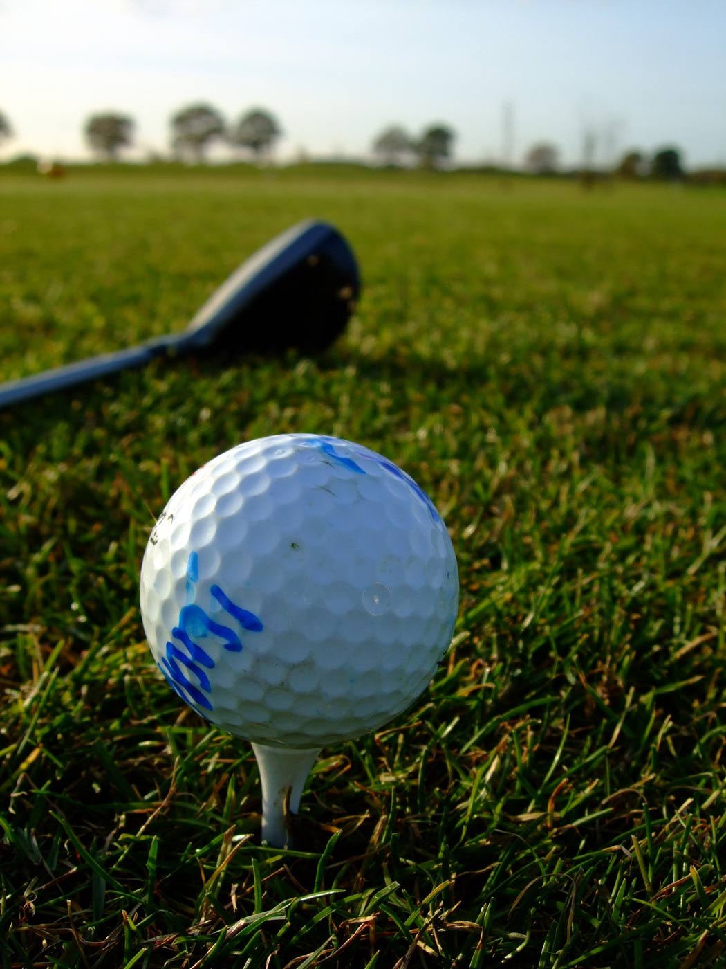 Golfball on the fairway and green